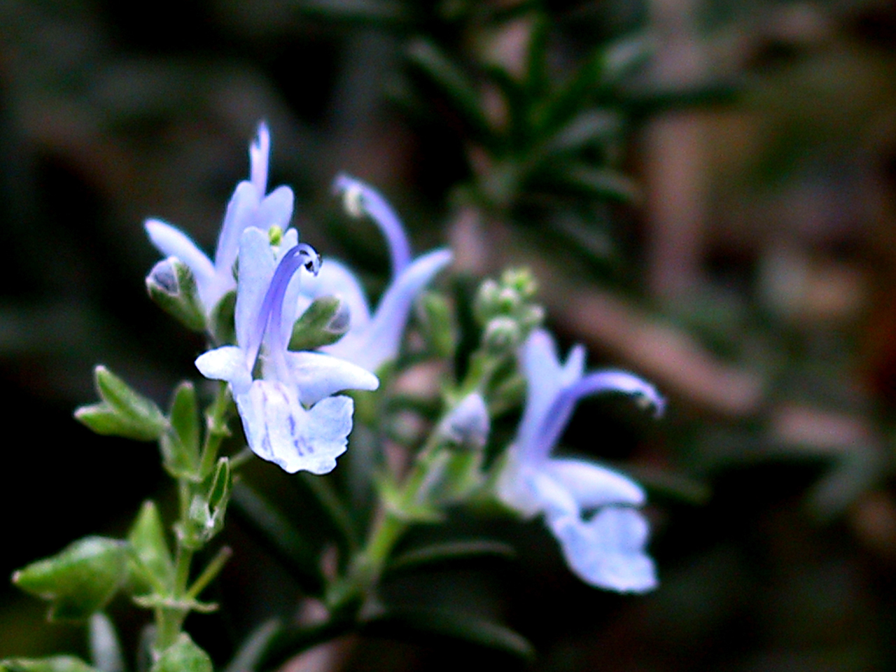 Rosmarinus officinalis